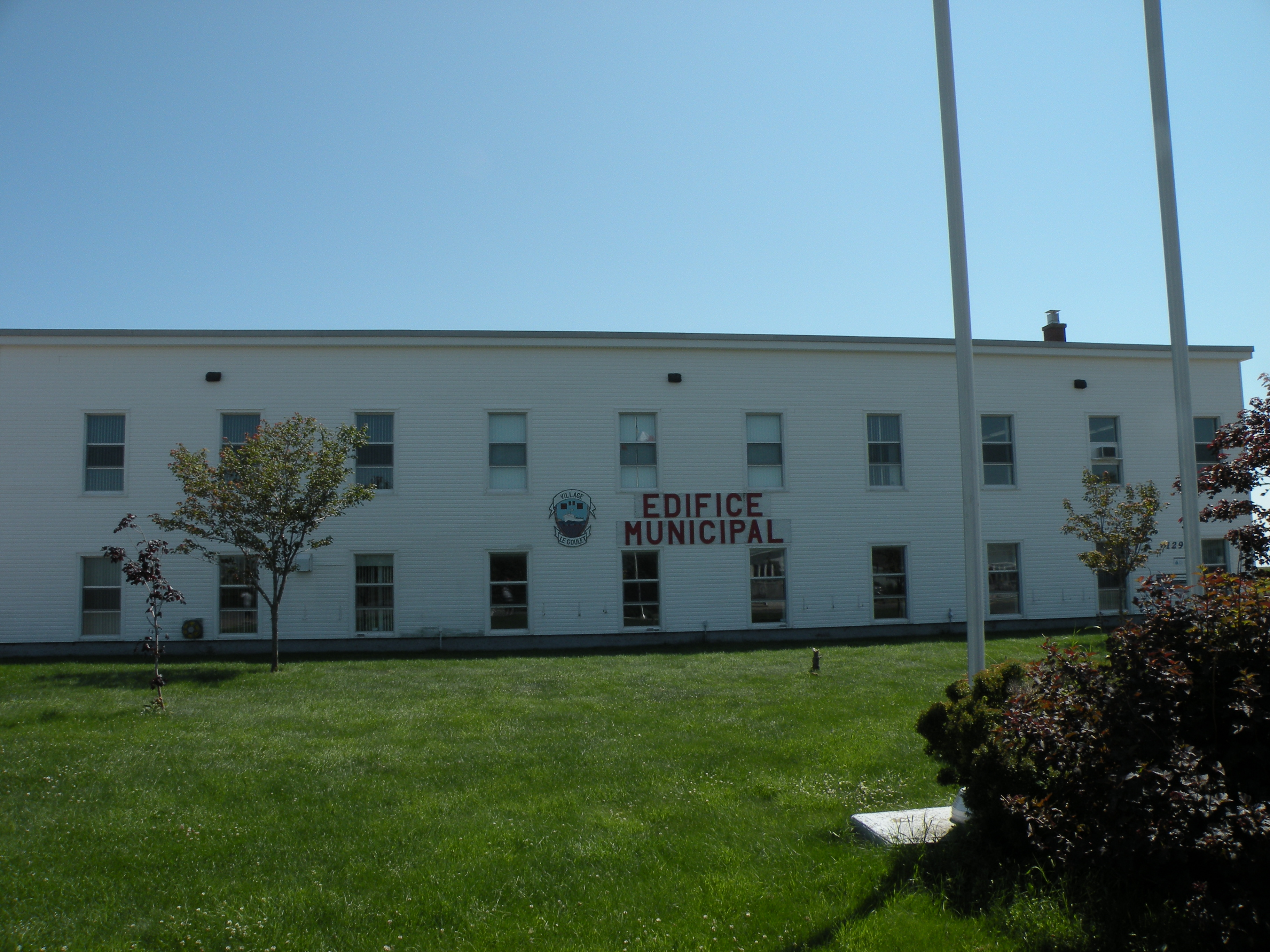 The municipal building of Le Goulet, New Brunswick, Canada.